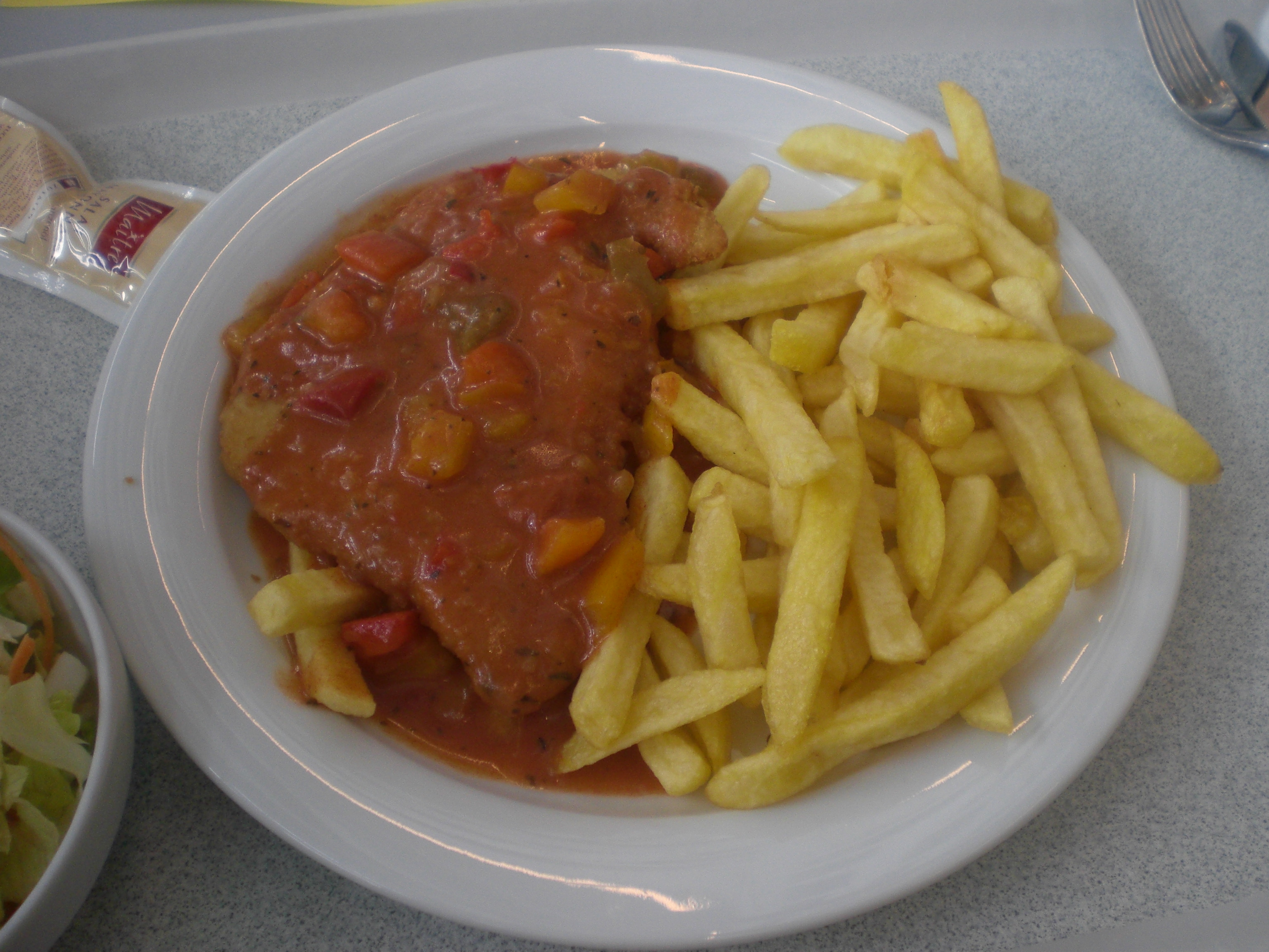 Schnitzel with pepper sauce!